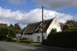 A thatched farmhouse in the village Elm, Cambridgeshire.